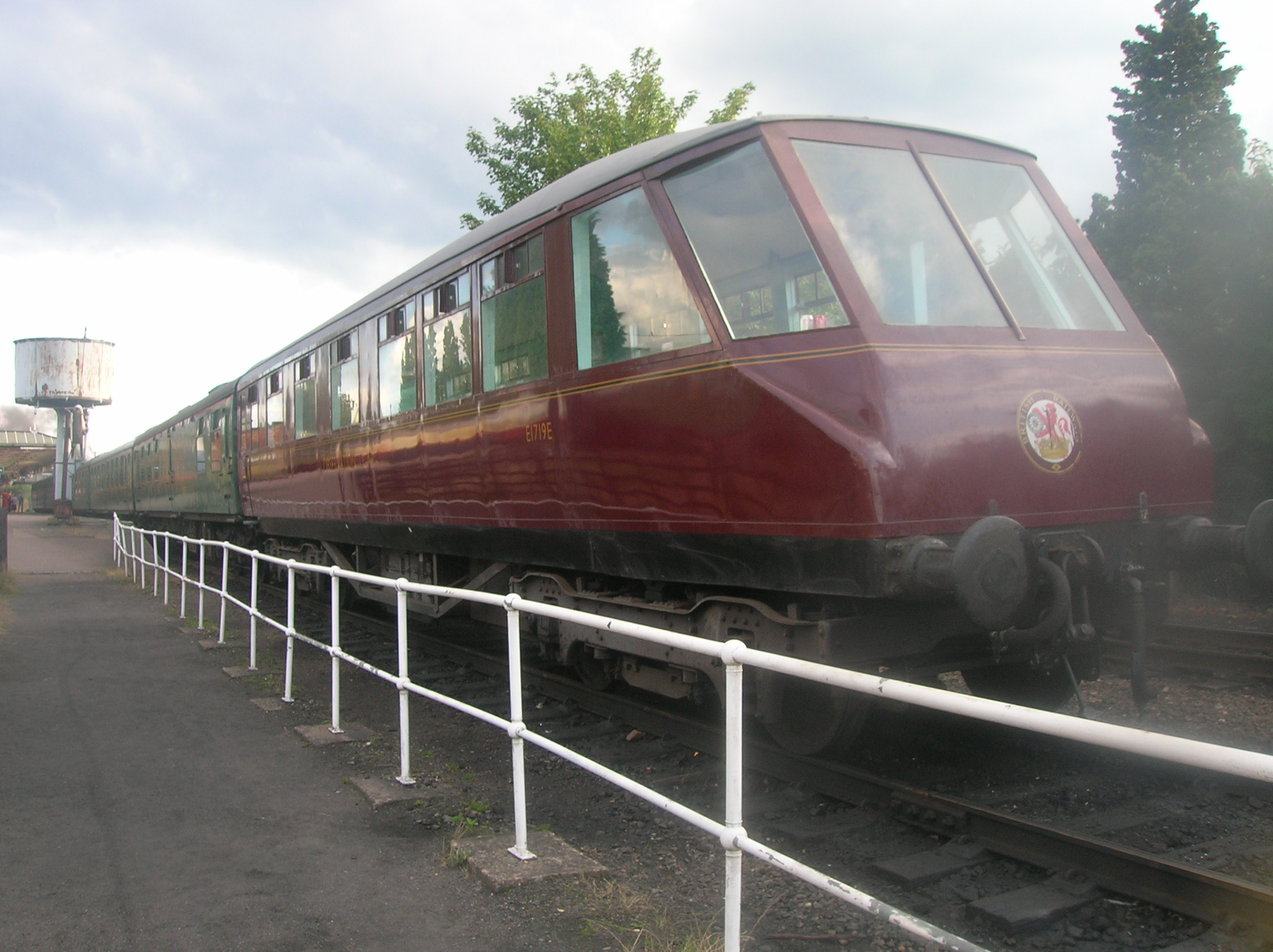 A picture of LNER Gresley Beavertail saloon for the page List of Great Central Railway locomotives and possibly the Commons.